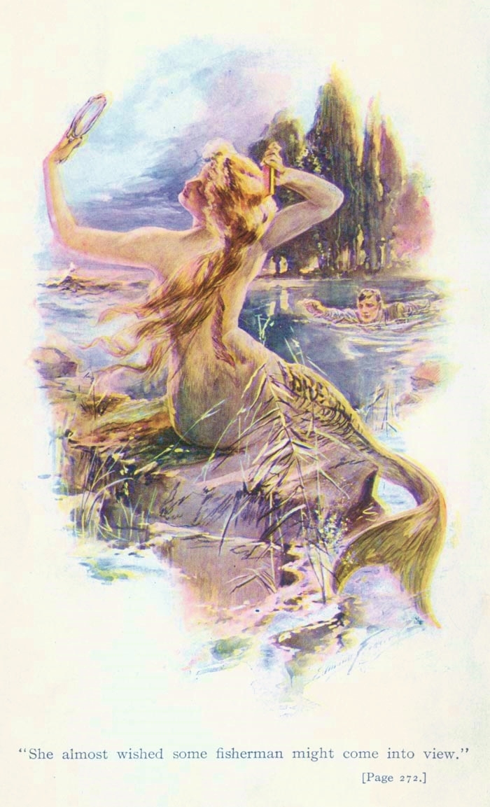 Illustration for "The Green Mouse" by Robert W. Chambers, published in 1910. Art by Edmund Frederick